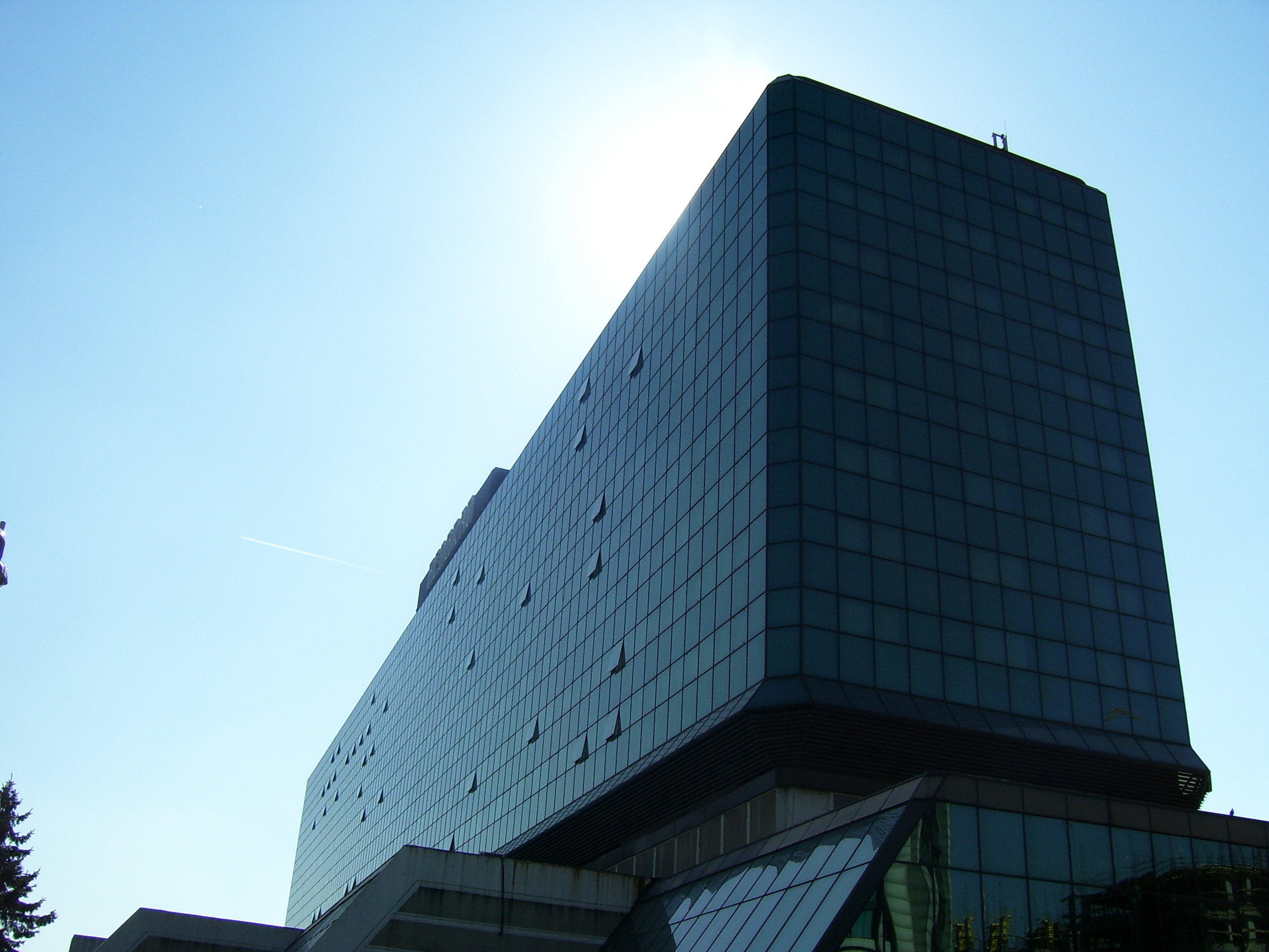 Continental Hotel, Belgrade, Serbia. Looking up